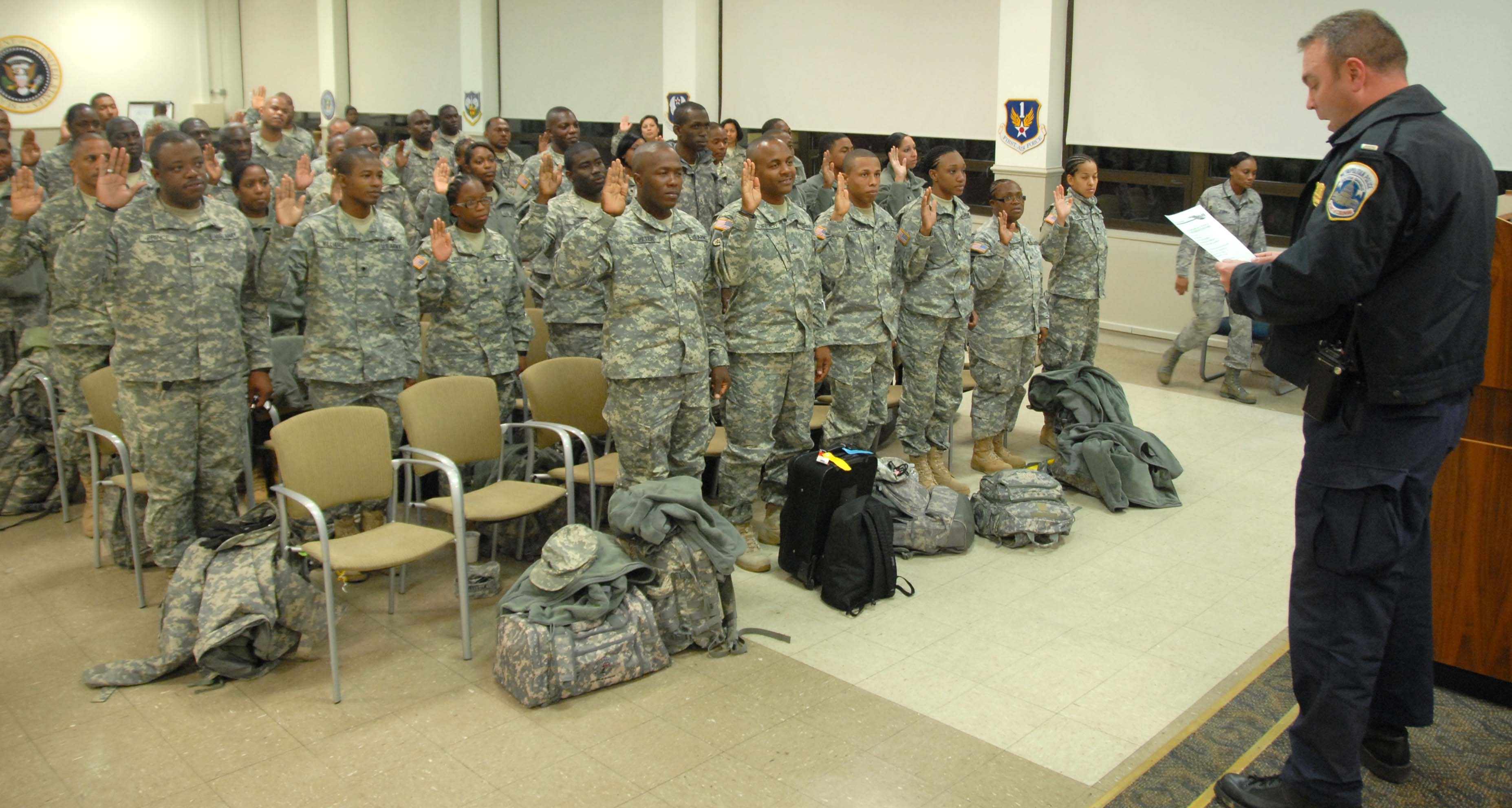 An officer from the Washington, DC police department deputizes members of the Virgin Islands National Guard who have just landed at Andrews AFB on January 18. About 6,000 Guardsmen arrived in DC to assist with the 57th presidential inauguration. (Air Force photo by Tech. Sgt. Emilyl F. Alley)